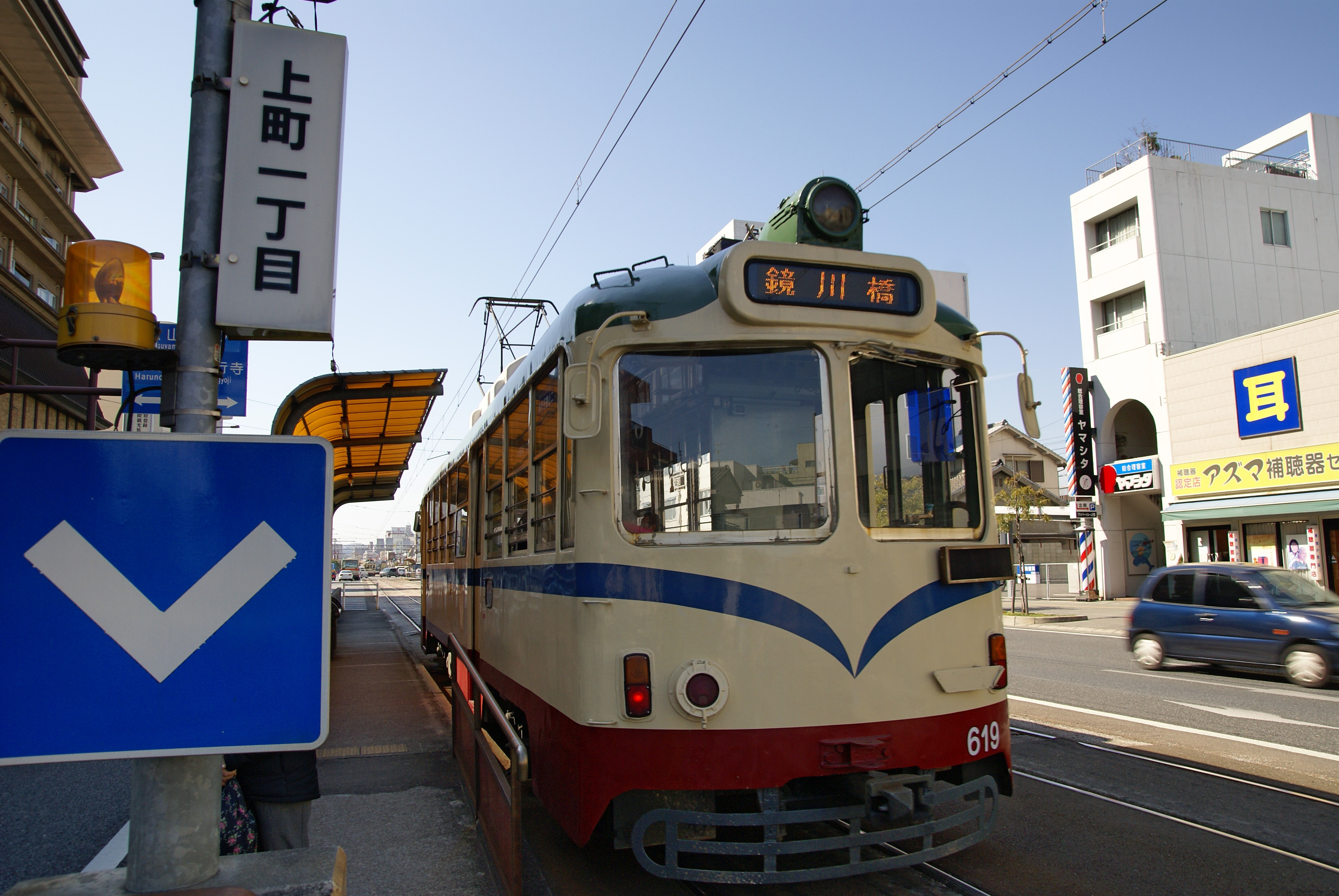 Kamimachi 1-chōme Station in Kochi, Kochi prefecture, Japan